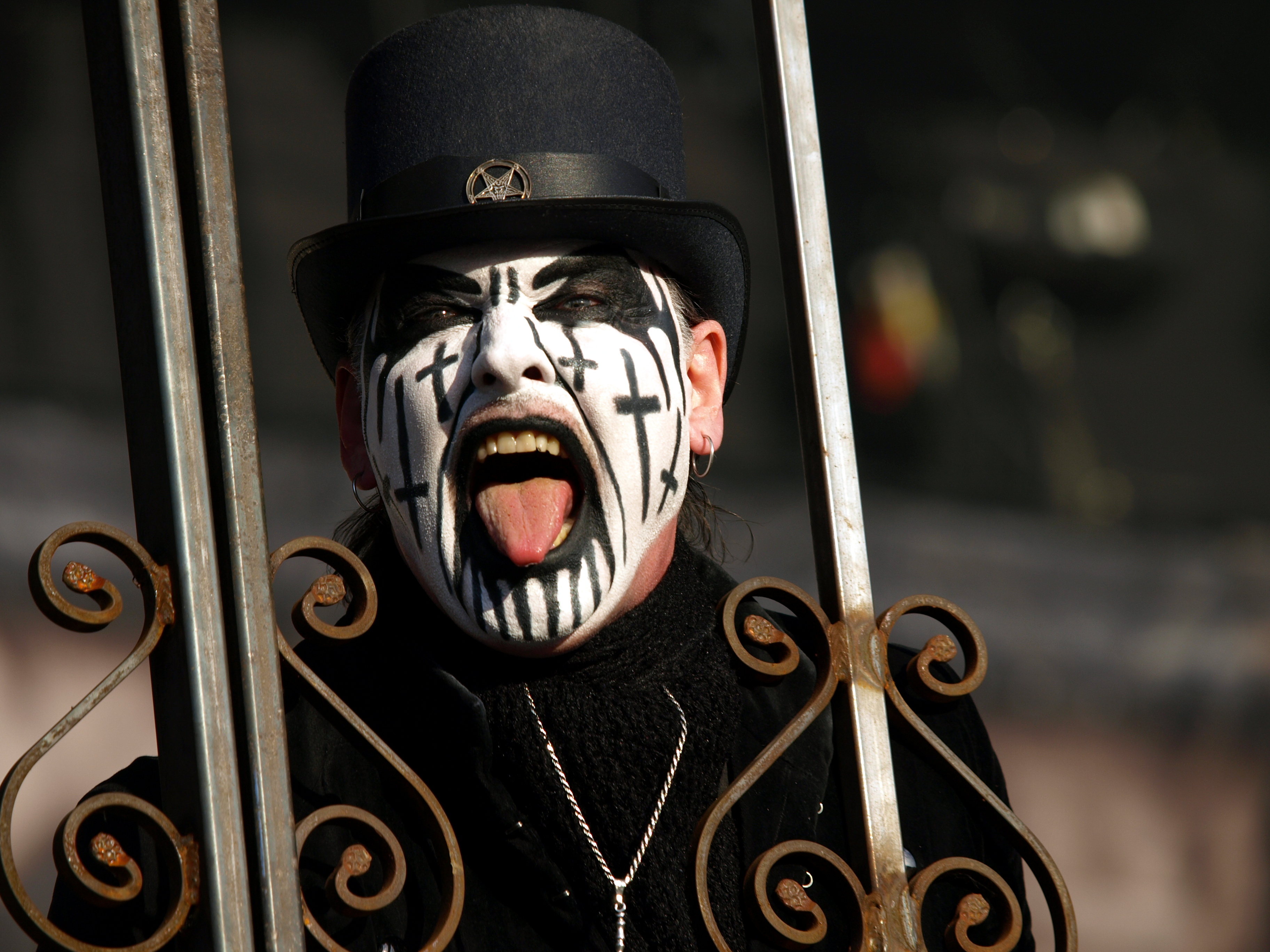 King Diamond and his band live at Tuska Open Air 2013